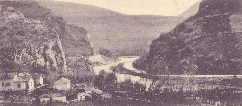 Panorama of Tarnovo, Bulgaria